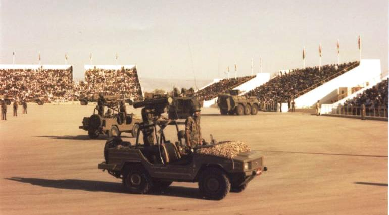 The mechanised element is led by Chieftain Main Battle Tanks of the Sultan's Armoured Regiment.